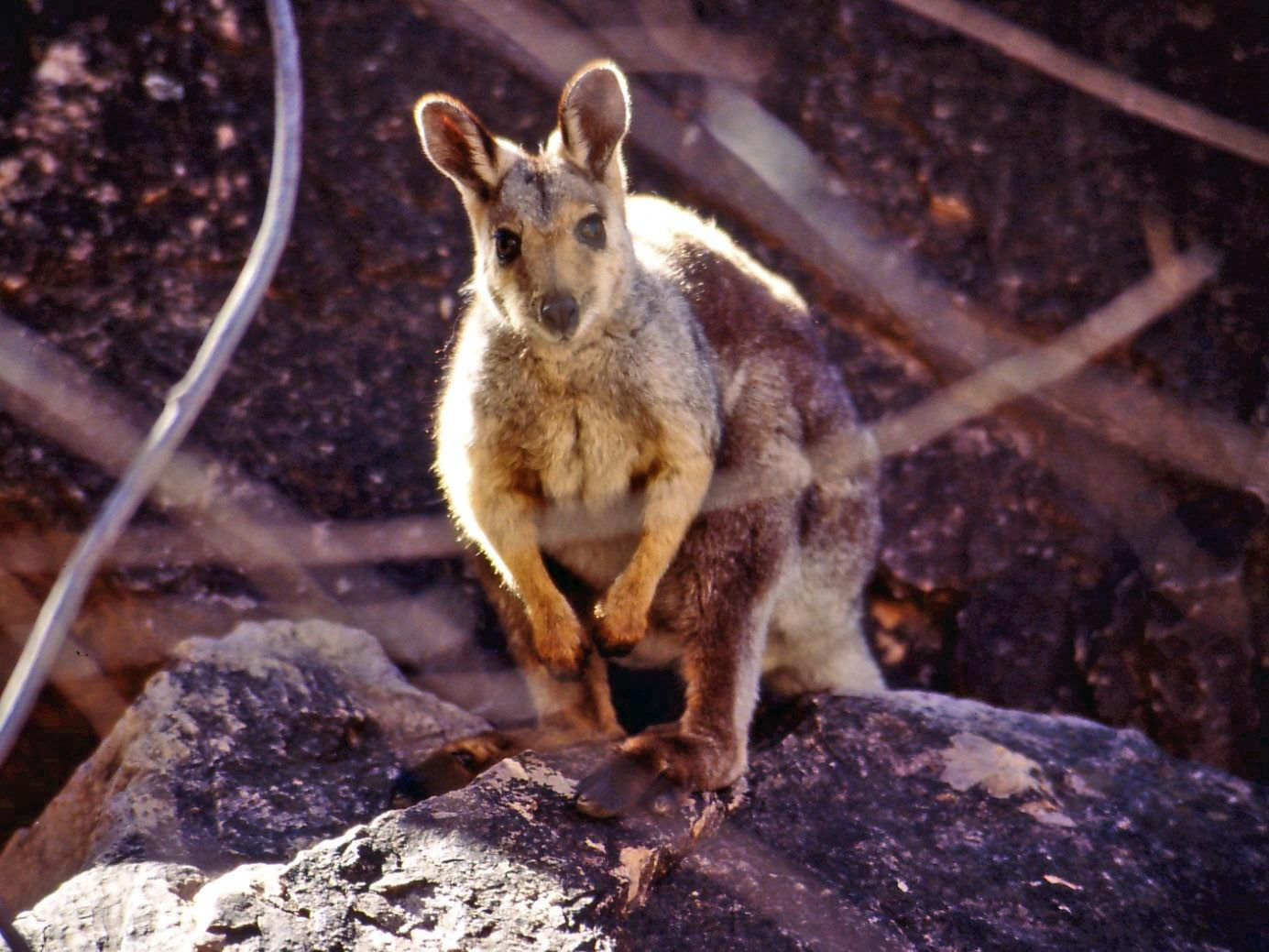 Black-footed Rock-wallaby (Petrogale lateralis), Australia